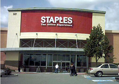 A typical Staples office supply store, in Ontario, California. Photographed on March 22, en:2005 and uploaded the same day by user Coolcaesar.